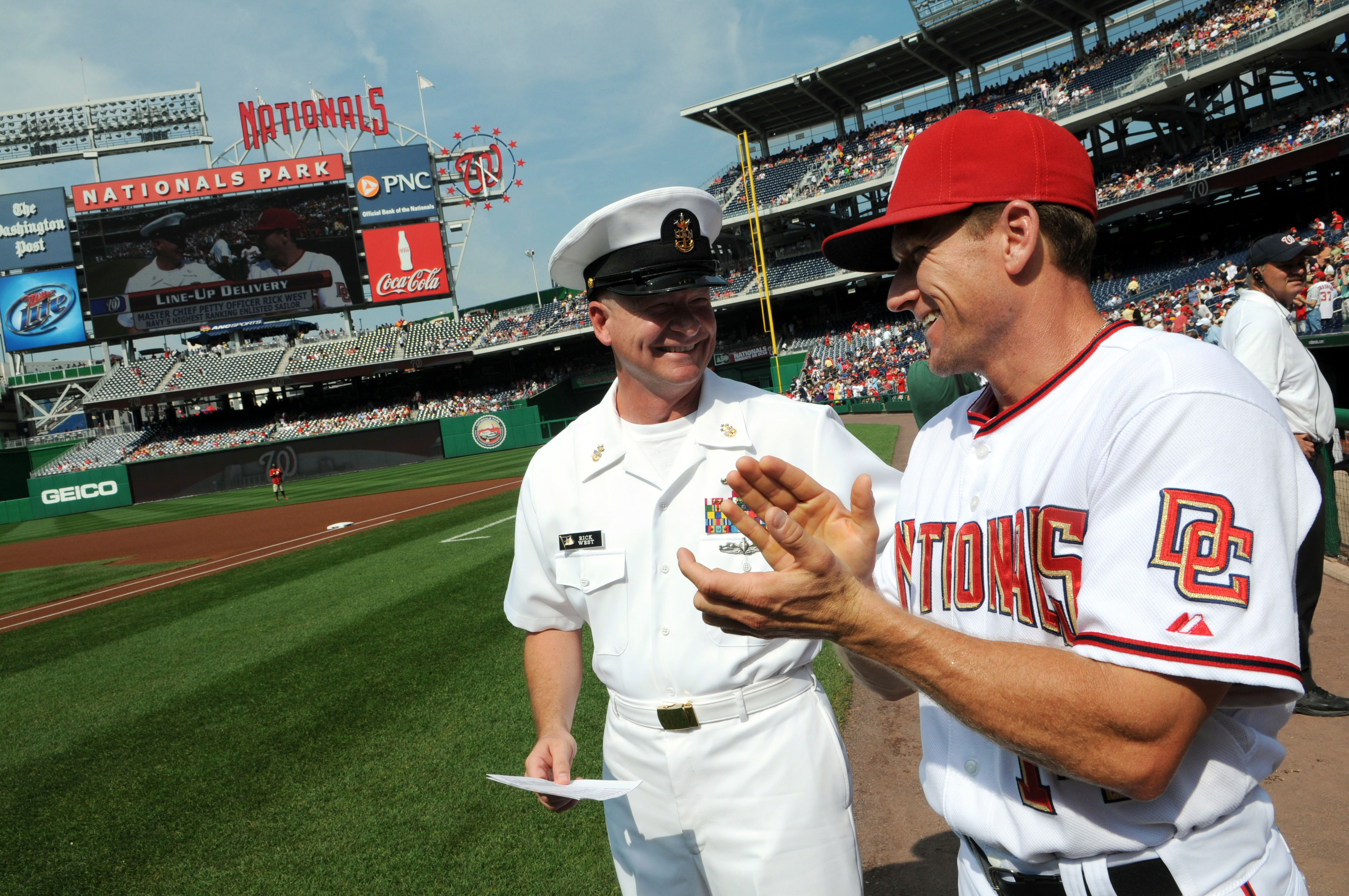 WASHINGTON (June 22, 2010) Master Chief Petty Officer of the Navy (MCPON) Rick West talks with Rick Eckstein, the hitting coach for the Washington Nationals, before the pregame meeting at home plate for the symbolic lineup card during Navy Day at Nationals Park. (U.S. Navy photo by Mass Communication Specialist 1st Class Jennifer A. Villalovos/Released)